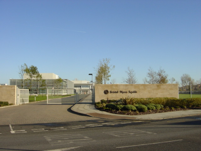 Bristol-Myers-Squibb Pharmaceutical Pharmaceutical Research Institute on Reeds Lane, Moreton which is responsible for the discovery and development of new medicines. It has become one of the world's leading healthcare and personal care companies with headquarters in the U.S.A. It has operations in many countries around the world, BMS produces cardiovascular medicines, central nervous system medicines, anti-infectives, anti-cancer agents and medical devices.